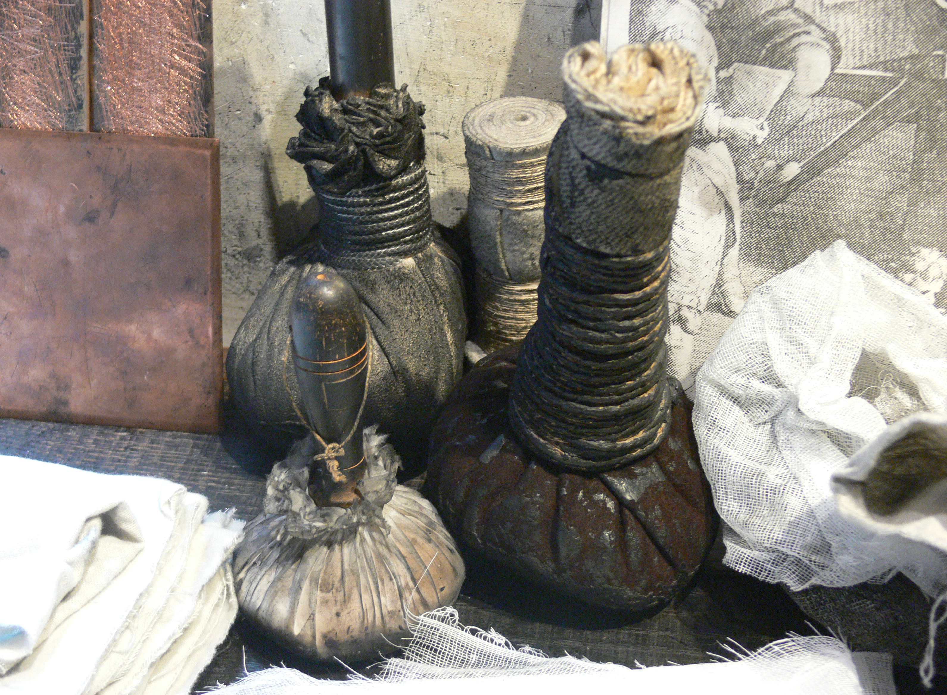 Rembrandt House Museum, printing studio